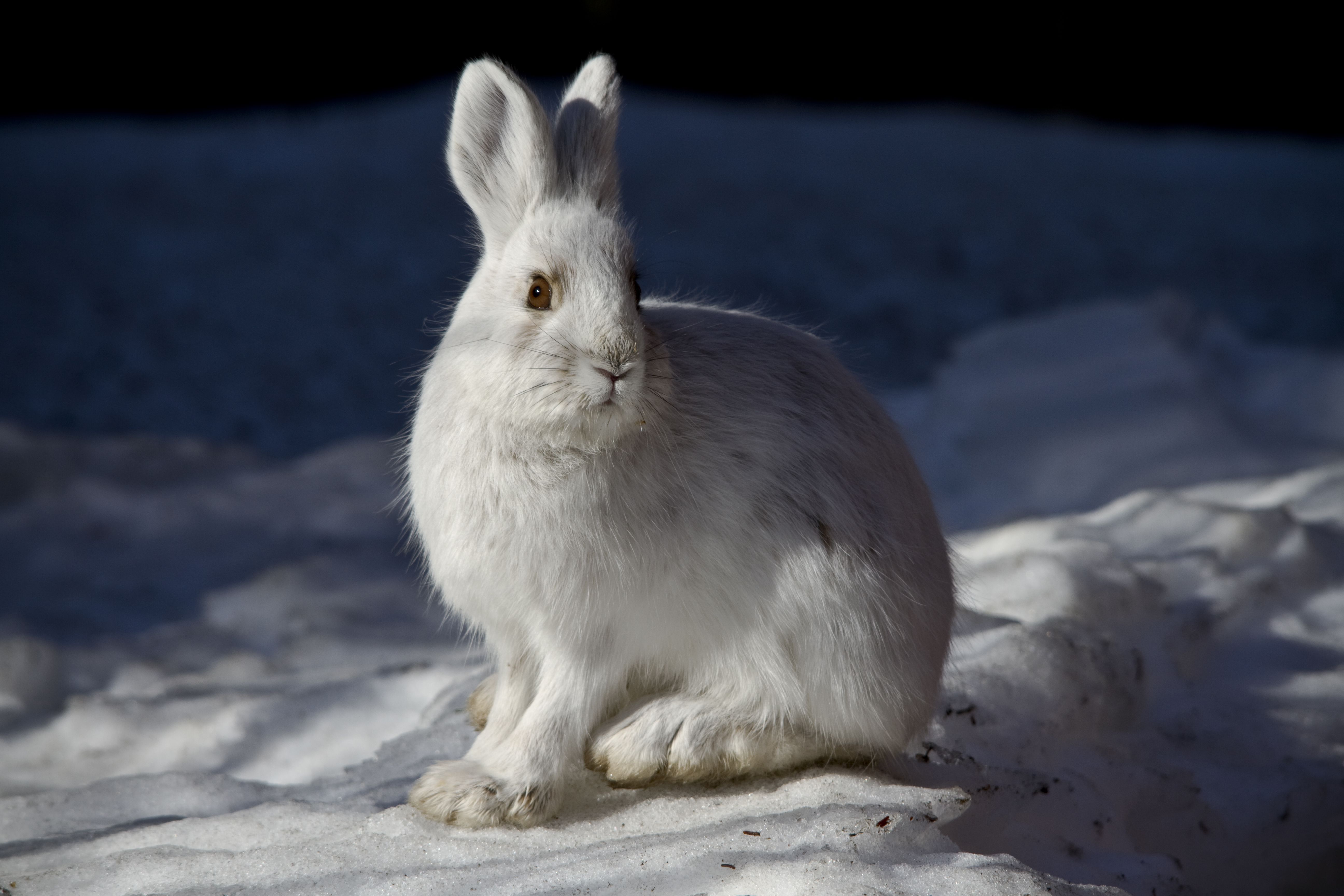 (NPS Photo/Jacob W. Frank) Check out the official Denali Facebook, Twitter and YouTube pages: Like us on Facebook: Follow us on Twitter: Denali YouTube Channel